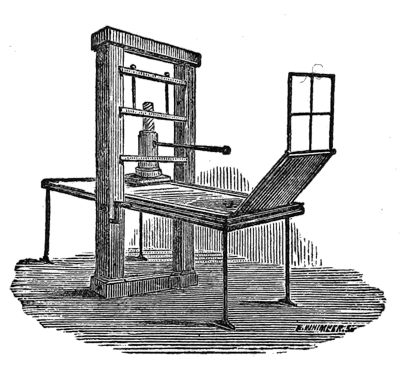 Early Press, etching from early Typography by William Skeen